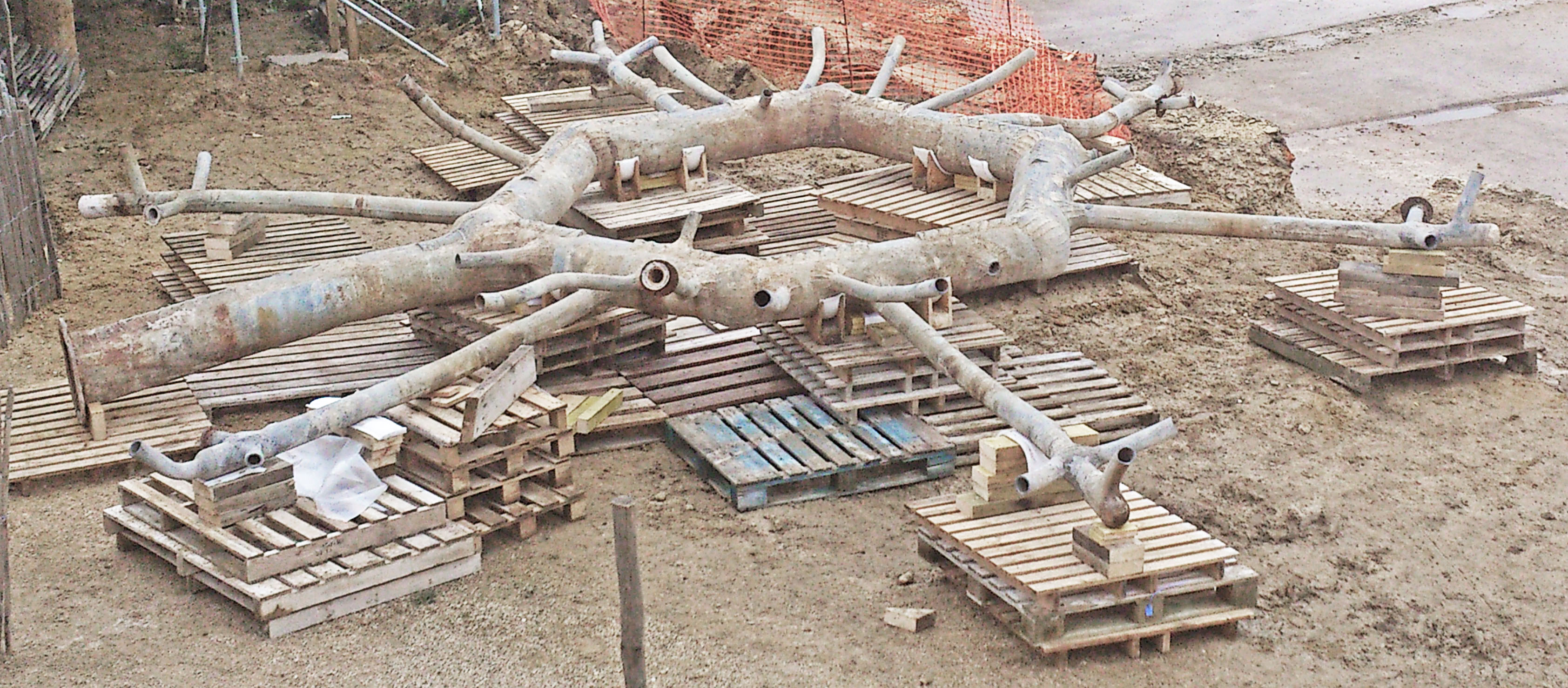 Repair of " the lead spider " of the bassin of Latone.